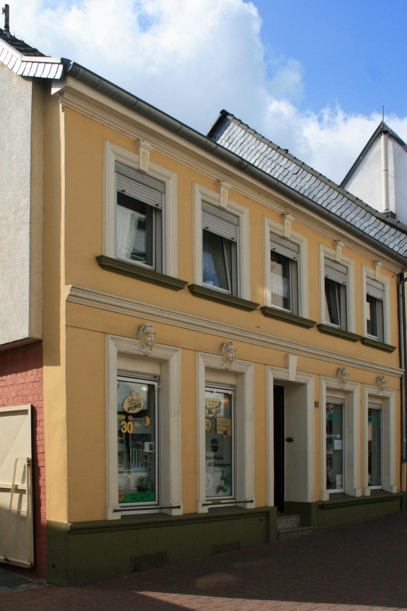 Cultural heritage monument No. Q 001 in Mönchengladbach